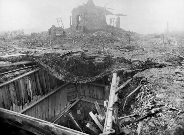 A heavy trench mortar emplacement, constructed by the No. 2 Section of the 3rd Australian Tunnelling Company close to Counter Trench at Cite St. Pierre, near Lens, from material salvaged from enemy dumps. The camouflage netting is rolled back to show the projecting barrel of the gun, which had a range of 2,400 yards and fired a shell weighting 152lbs. Identified, in the trench, left to right: unidentified British soldier (Tommy), 11th Division; Major A. Sanderson DSO MC; unidentified British soldier (Tommy), 11th Division. Location : Cite St. Pierre, near Lens, France. Comment : This is a 9.45 inch Heavy Mortar.